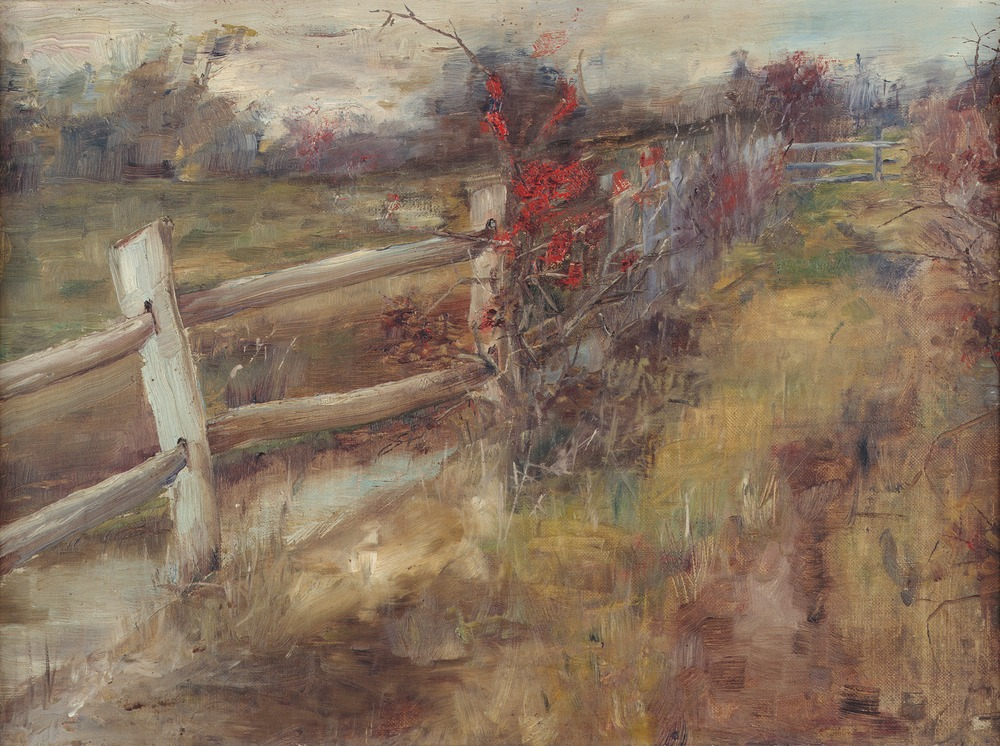 The Hawthorn Path by Henrietta Maria Gulliver, 1909